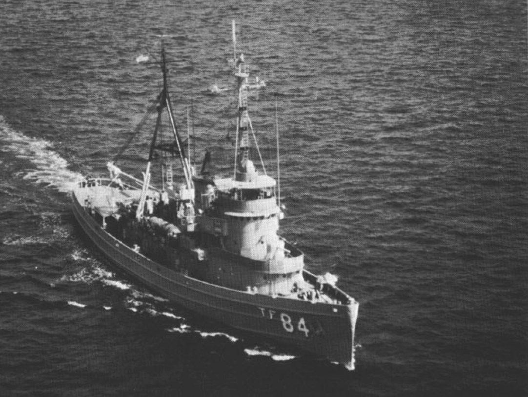 The U.S. Navy fleet tug USS Cree (ATF-84) underway in the Pacific, circa 1970.